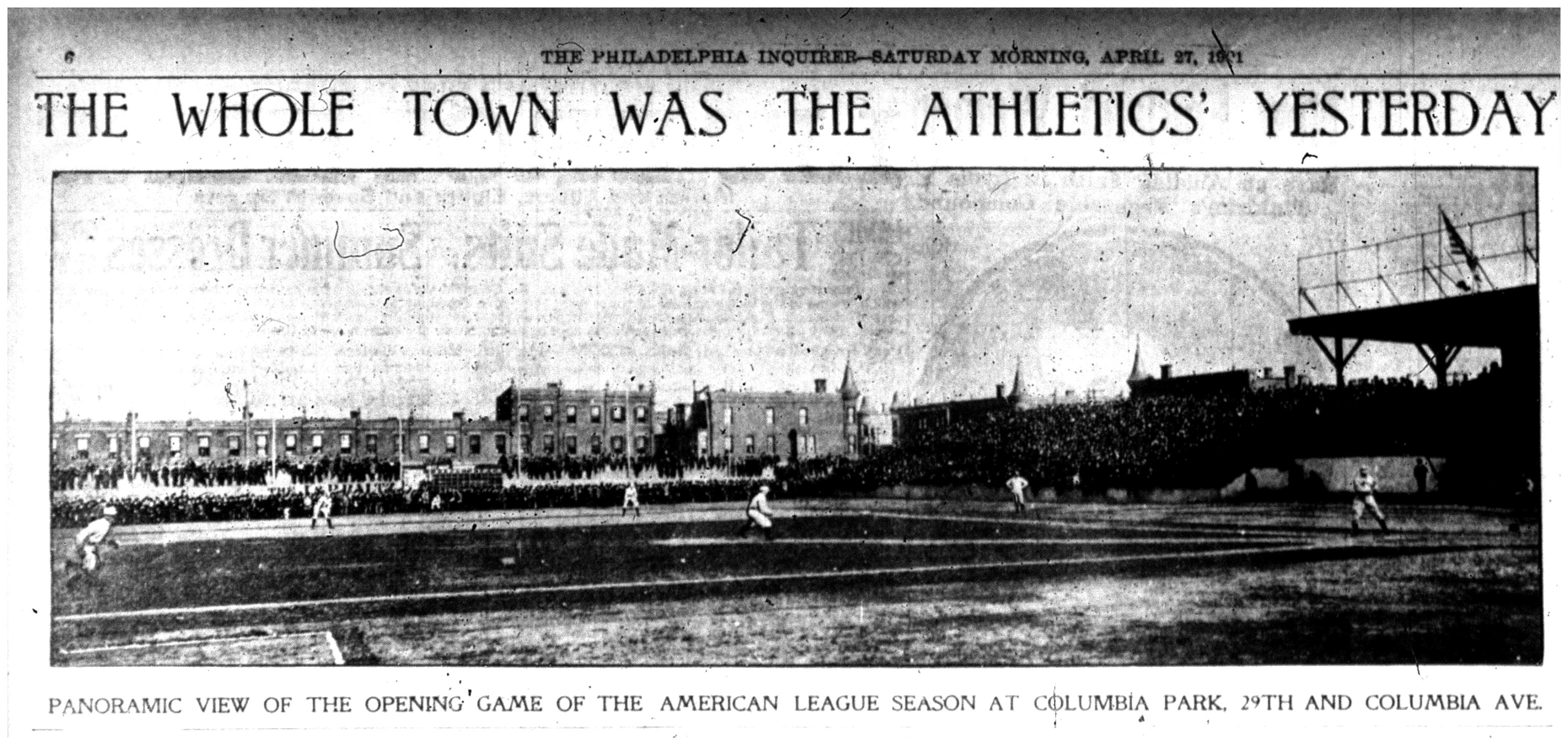 Partial page view of coverage of the Philadelphia Athletics' first-ever opening day. The buildings in the background stand on the east side of 29th street. An advertisement for the J&P Baltz Brewing Company, which was four blocks away at 31st and Thompson, can be seen behind the second baseman. "THE PHILADELPHIA INQUIRER–SATURDAY MORNING, APRIL 27, 1901 THE WHOLE TOWN WAS THE ATHLETICS' YESTERDAY PANORAMIC VIEW OF THE OPENING GAME OF THE AMERICAN LEAGUE SEASON AT COLUMBIA PARK, 29TH AND COLUMBIA AVE."